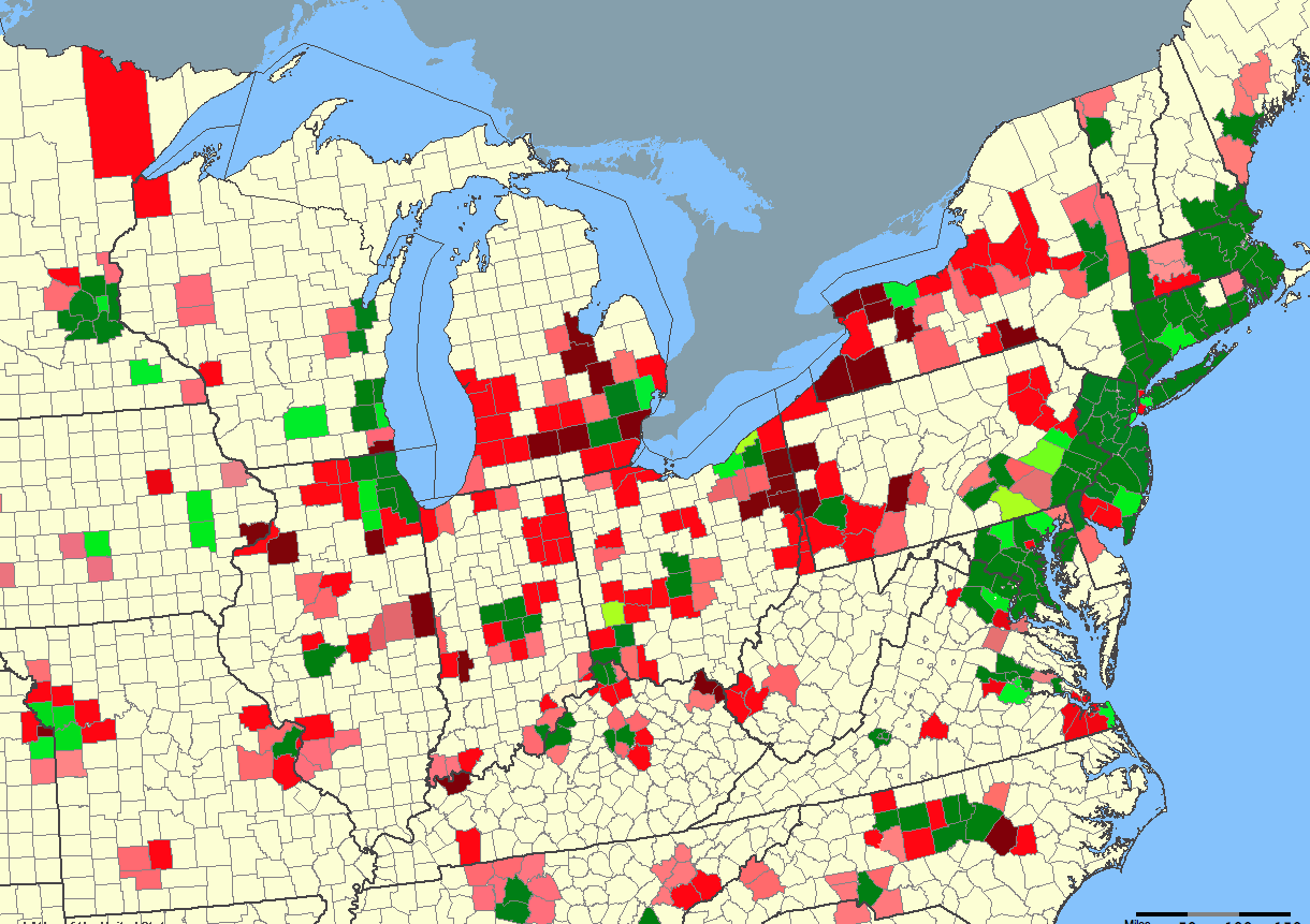 Change in per capital personal income among metropolitan counties, in and around the midwestern and northeastern United States, 1980-2002. Figures are in relation to the average for metropolitan counties, 2002, which is higher than the national average. KEY: Dark green=above average income and faster-than-average growth Green=above average income, average growth Yellow-green=above-average income but decreasing Pink=below-average income but faster-than-average growth Red=below-average income, average or below-average growth Burgundy=below average income and further decrease Sources: National Atlas ( and Economic Research page of the Federal Reserve Bank of St Louis (